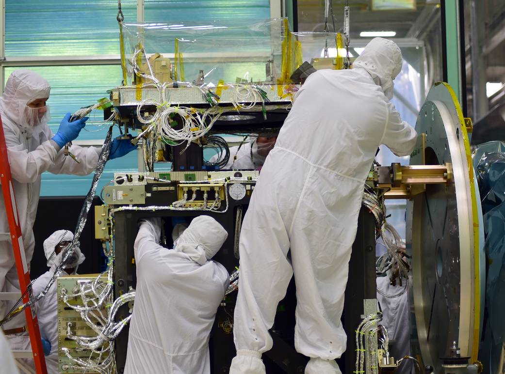 NASA engineers conduct a fit test on the ATLAS instrument of the ICESat-2 mission